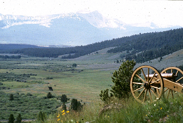 Big Hole Battlefield,10 miles west of Wisdom, Montana, on Montana Highway 43. The 655-acre site is managed by the National Park Service.